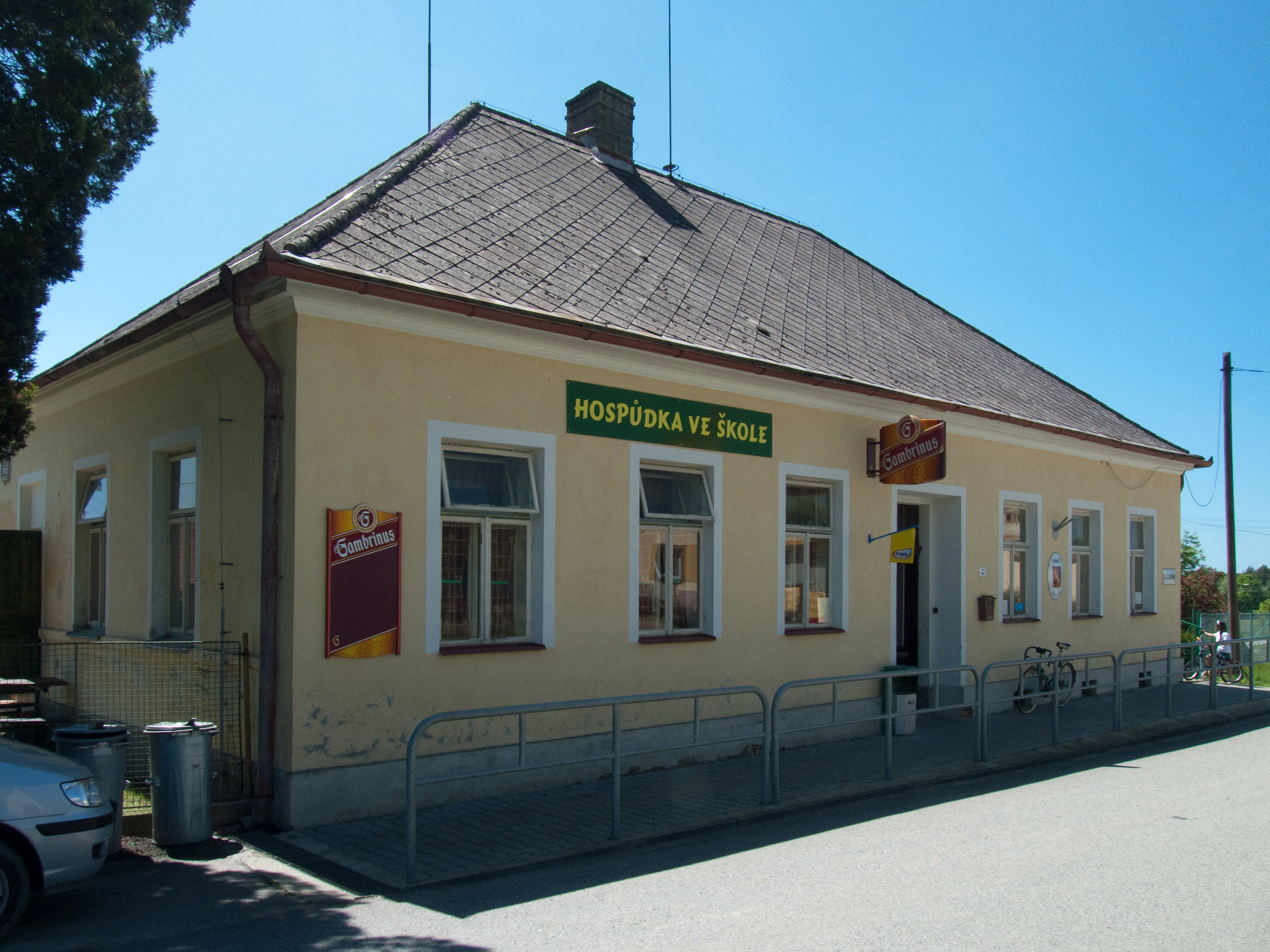 Municipal authority building also housing the local library and the Hospůdka ve škole pub in the village of Mezná, Tábor district, Czech Republic. The pub derives its name (School Inn) from the original purpose of the building